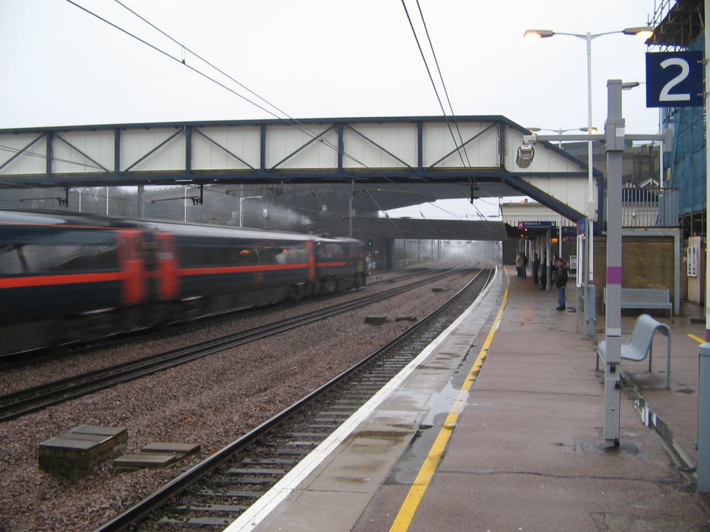 The train station at Huntingdon, Cambridgeshire, UK.